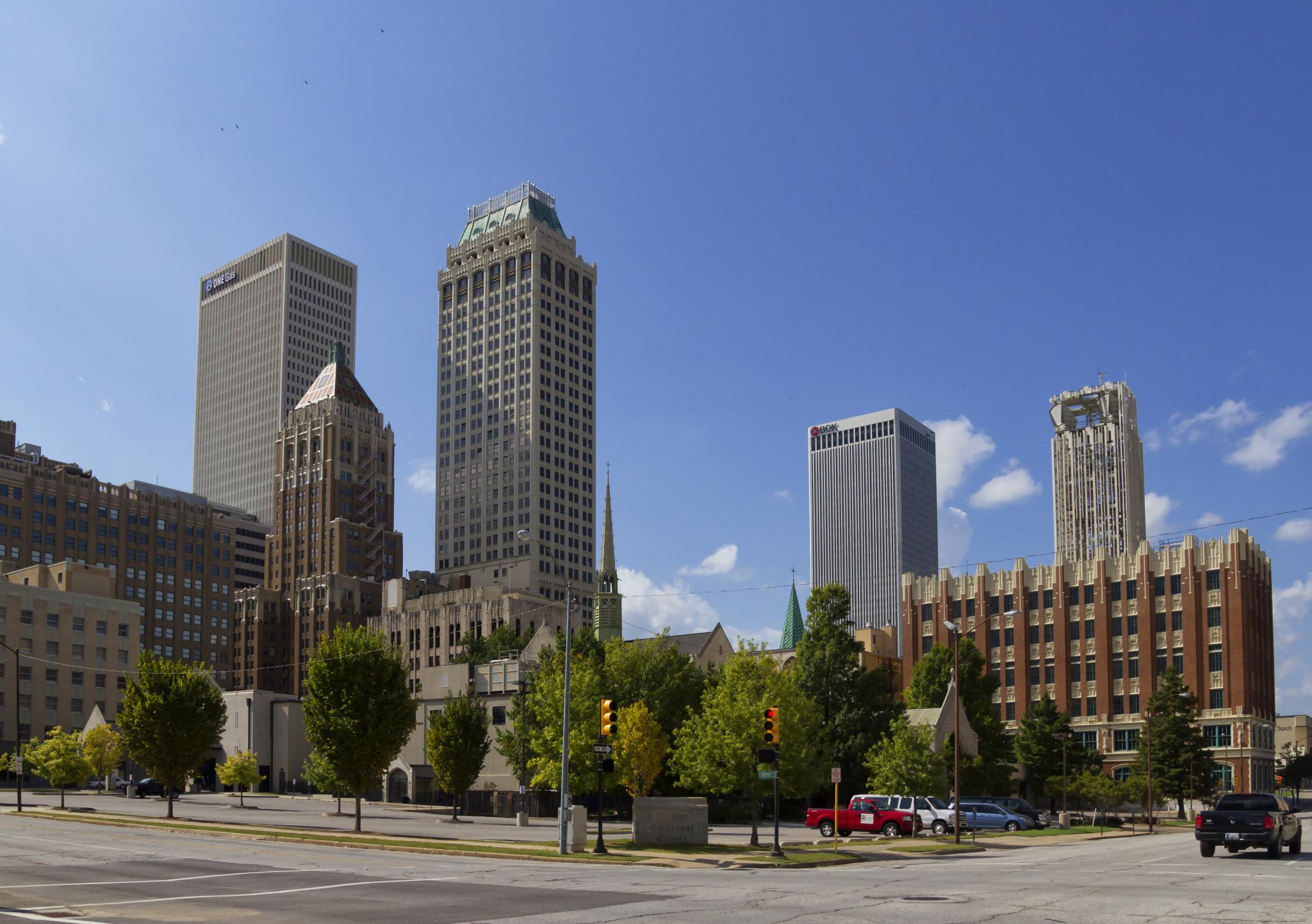 Downtown Tulsa, Oklahoma.